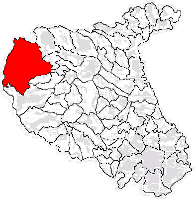 Limits of commune within Vrancea County